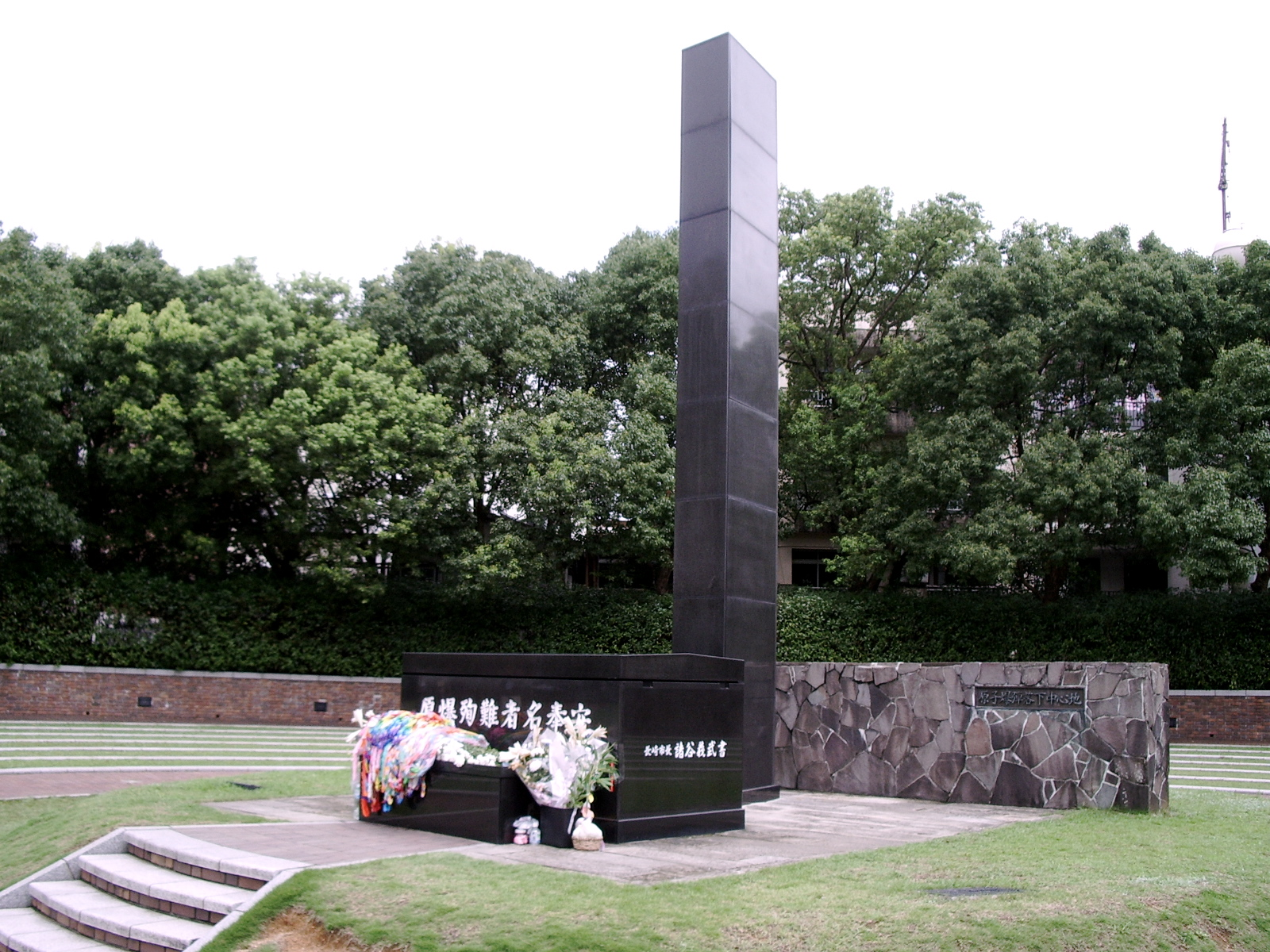 The monument marking the atomic bomb hypocenter in Nagasaki, Japan. Photo by Eric Priest.